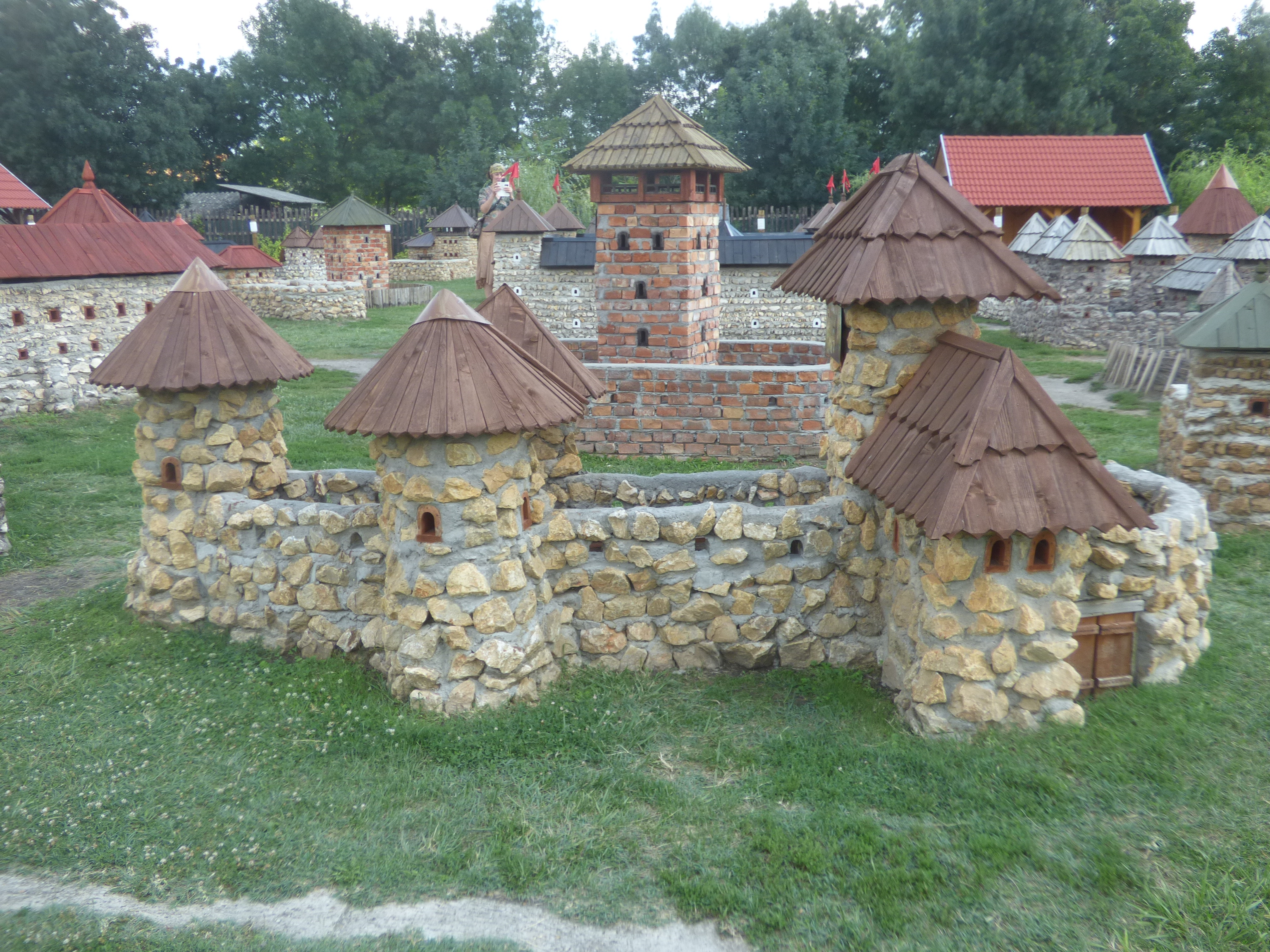 Sebesvár (Kissebes) makettje a dinnyési Várparkban